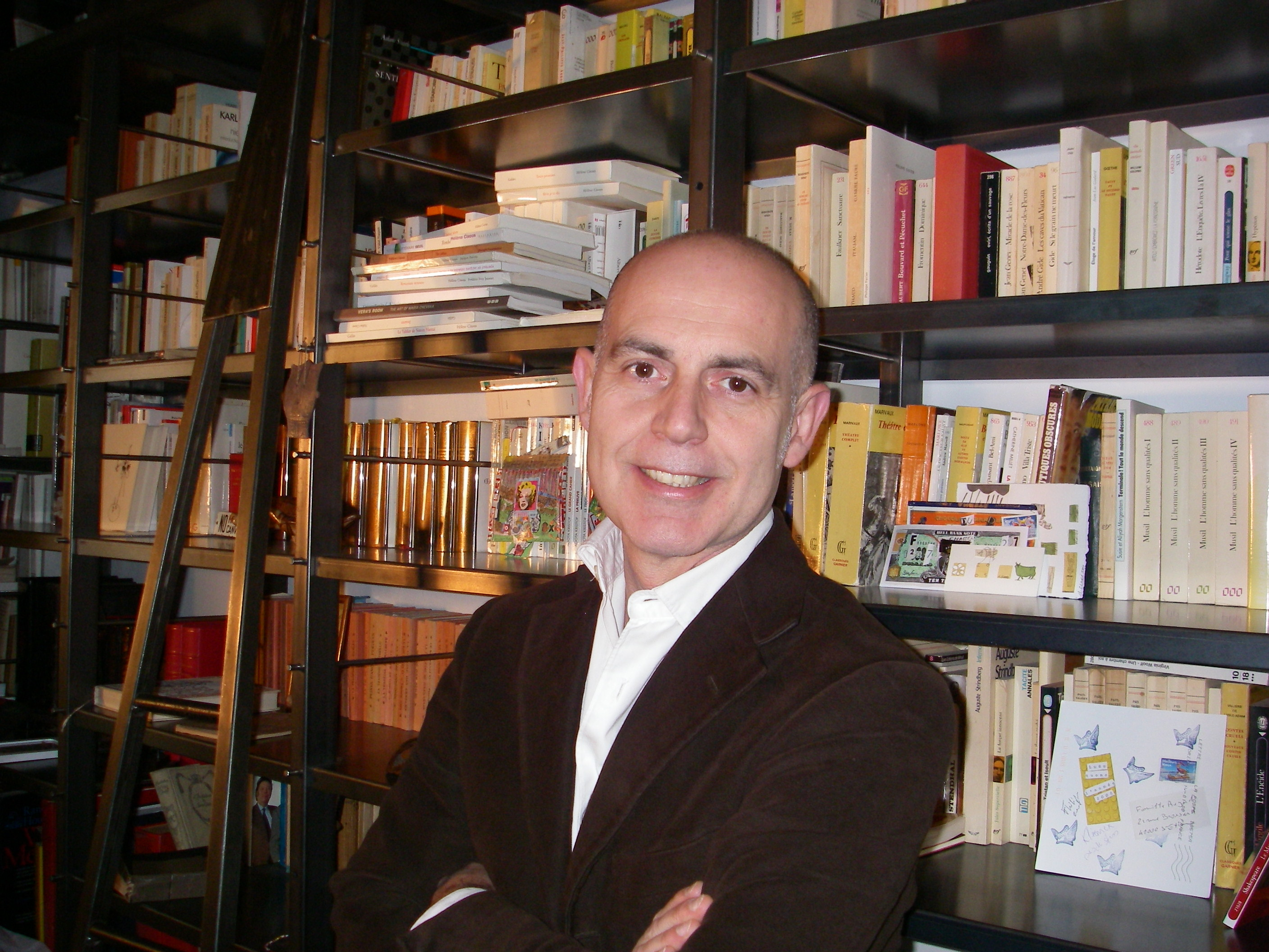 Picture of Prof. F. Regard